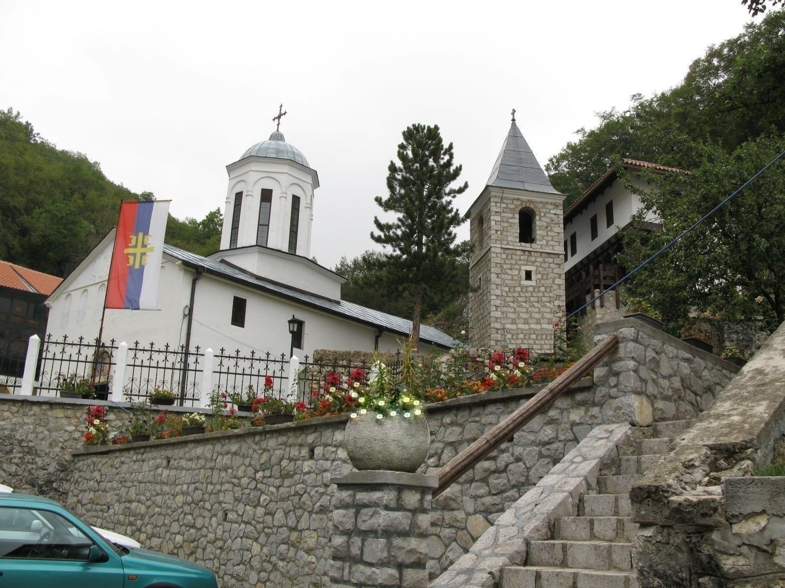 Monastery of the Holy Trinity -Pljevlja , Montenegro